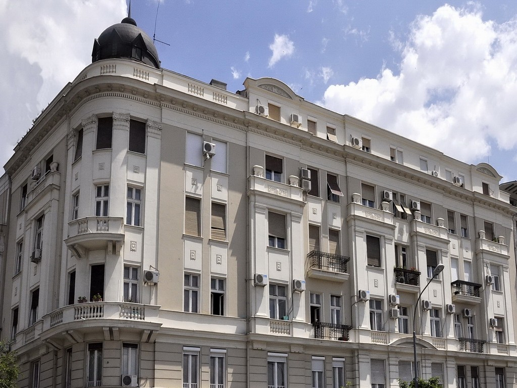 House of Serbian Medical Association in Belgrade, the endowment of Dr. Stevan Milosavljević, the first Serb head of medical care.